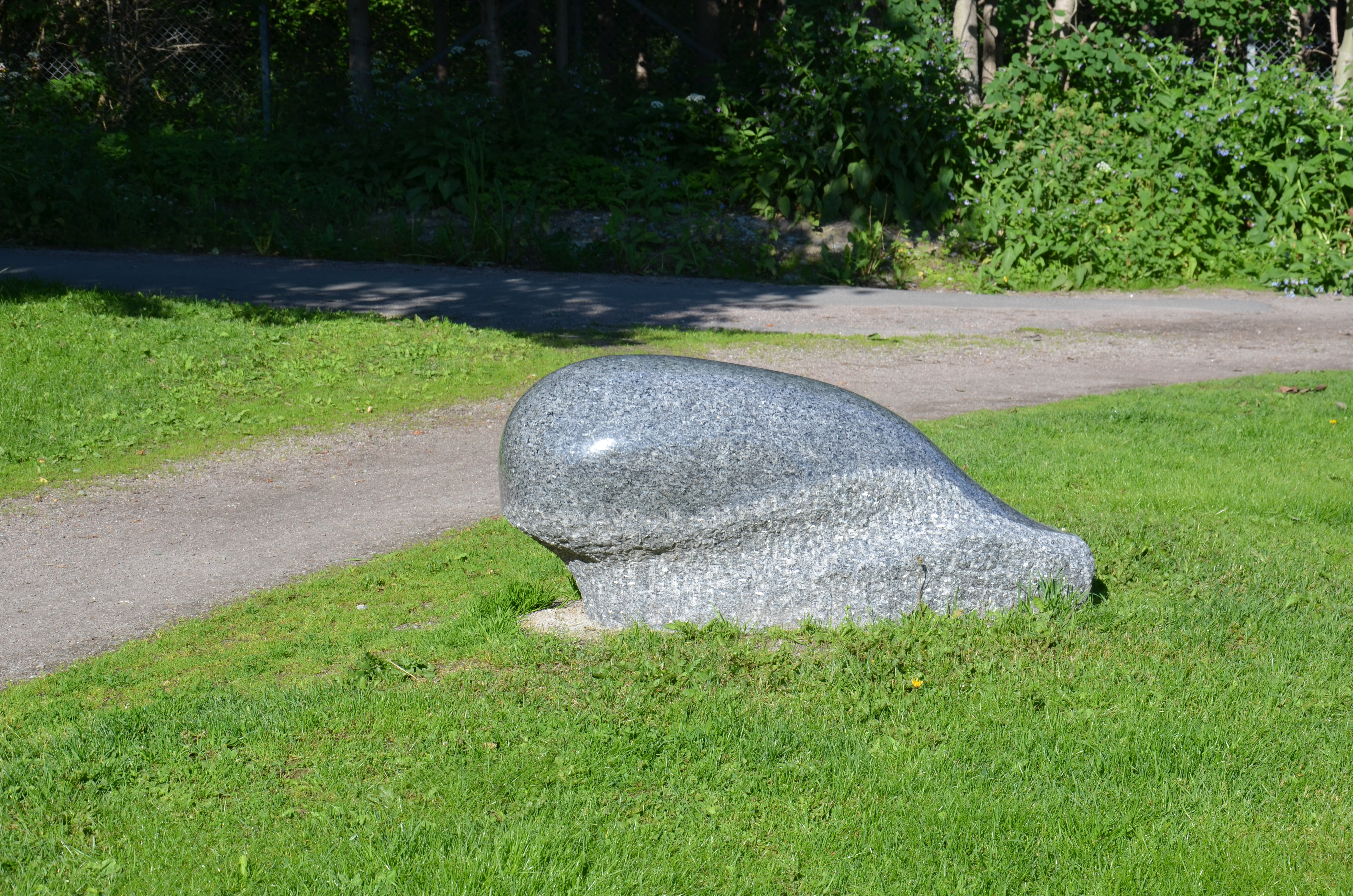 Ann Carlsson Korneevs Mellan två vatten, en del av två, Lilla Å-promenaden i Örebro